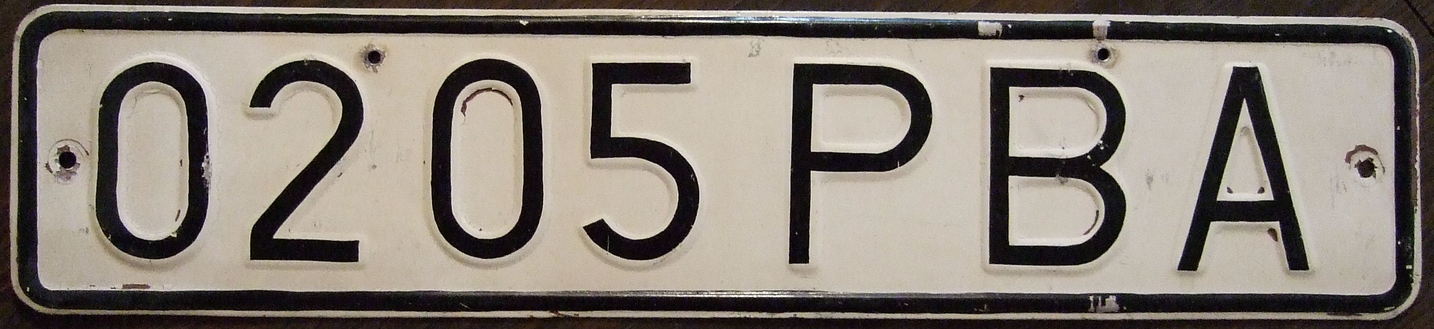 This plate from Rovno in the Ukrainian SSR of official registration may have been used by that official to travel outside the Soviet Union. This is so because vehicles of Soviet origin travelling outside the country used letters on their plates common to both the western and cyrillic alphabet. Rovno is situated very close to where Poland, Belarus and the Ukraine meet. Rovno which once had a high Jewish population was mostly wiped out in WW II. The city is known for its WW II museums.